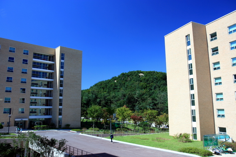 View of renovated student dormitories at Gwanaksa complex, Seoul National University